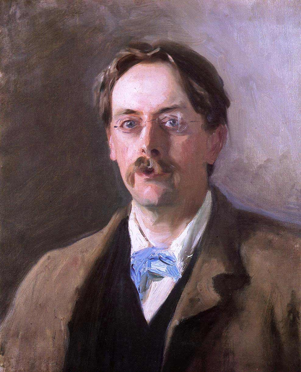 Portrait of Sir Edmund Gosse, 1886. Oil on canvas 54.6 x 44.5 cm (21 1/2 x 17 1/2 in.) National Portrait Gallery, London